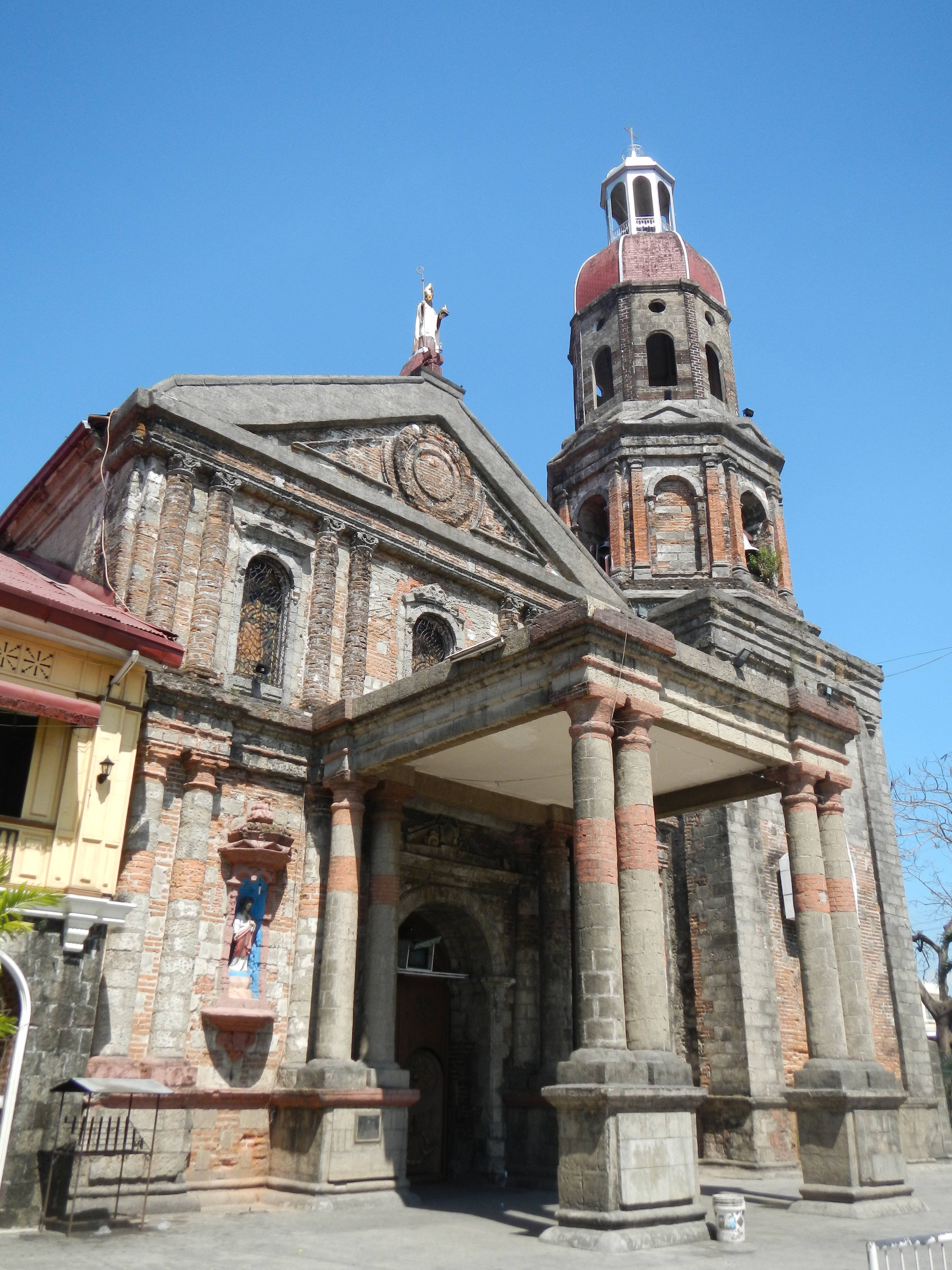 1733 St. Augustine Parish Church of Baliuag (Saint Agustin of Hippo Parish Church)[1][2][3]Baliuag, Bulacan[4]